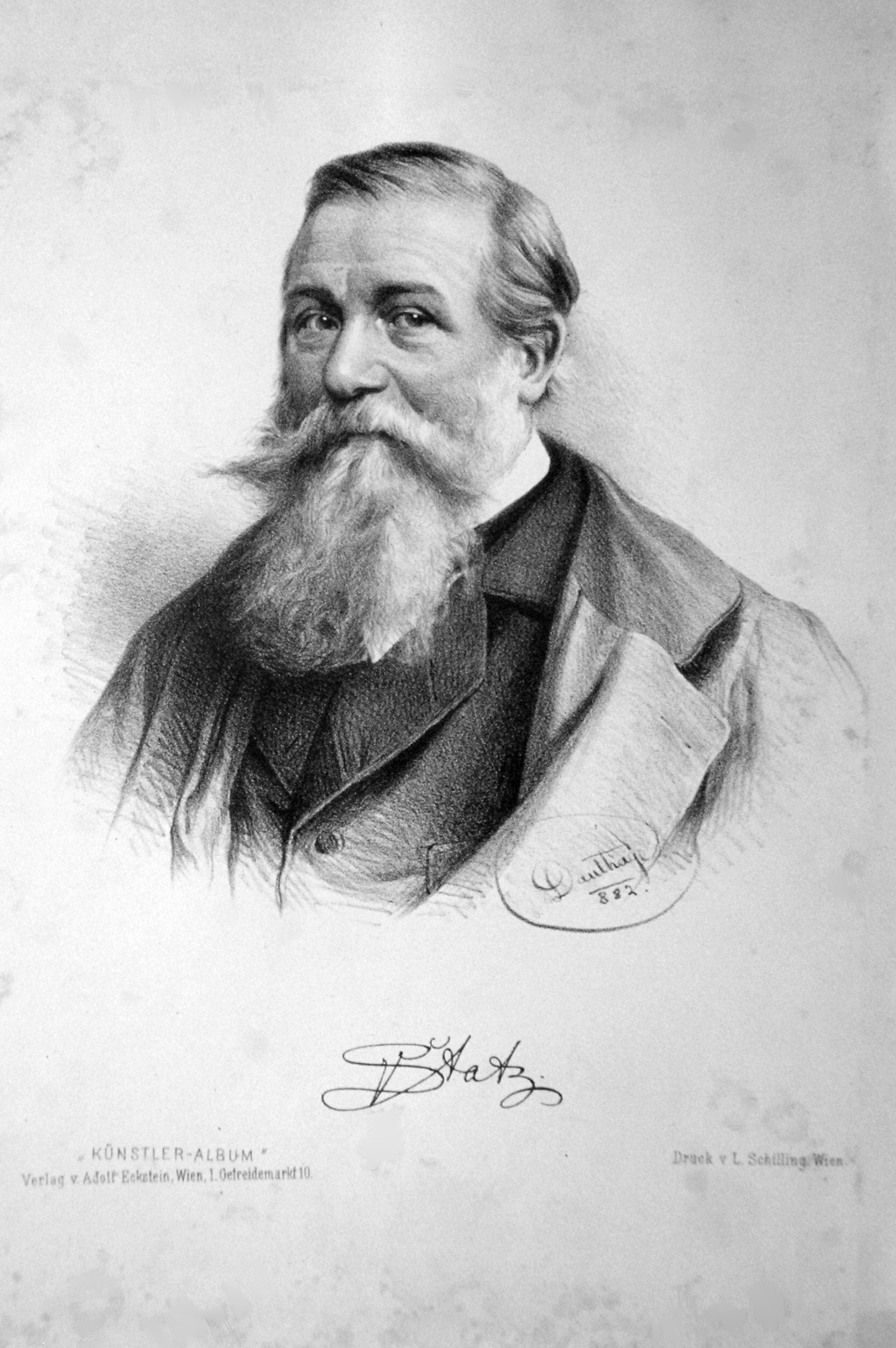 Vincenz Statz (1819-1898), German Architect Lithograph by Adolf Dauthage, 1882 From "Künstler Album" published by A. Eckstein, Vienna